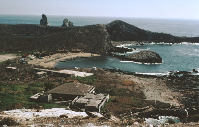 Buildings of a biological research station and fishermen's shacks line the shores of Playa Chica on the SE side of Isla Isabel. The two spires at the upper left are the Islotes Las Monas, eroded remnants of an offshore tuff cone. The lake-filled Laguna Fragatas maar can be seen at the left in front of the spires of the Islotes Las Monas.